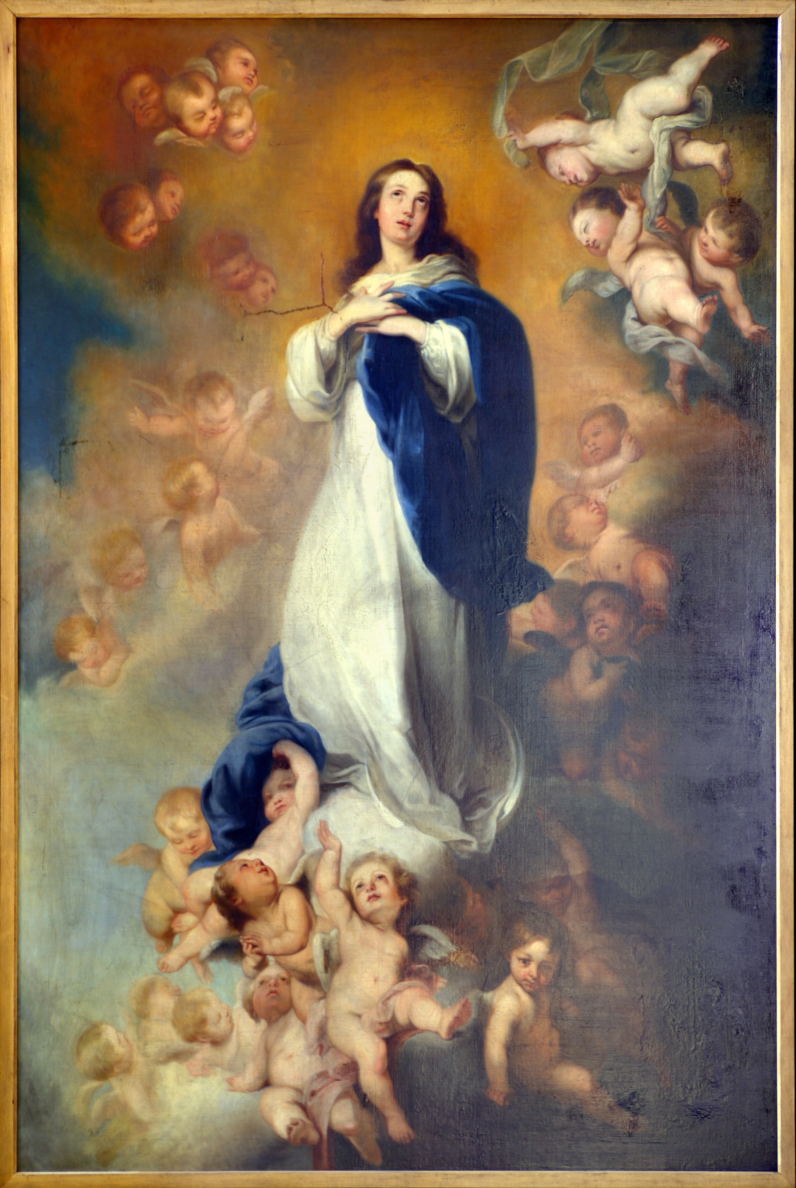 The Immaculate Conception of the Venerable Ones, or of Soult. Copy in Notre-Dame Basilica, Geneva, Switzerland.